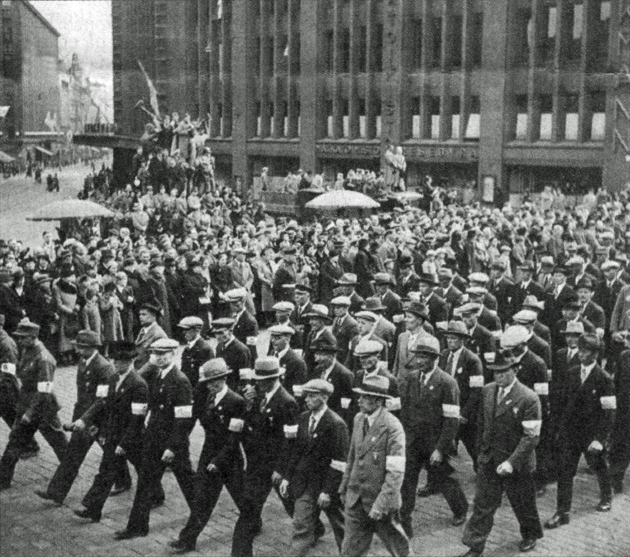 Representatives of the Peasant passing by the Three Smiths statue March on July 7, 1930 in Helsinki.